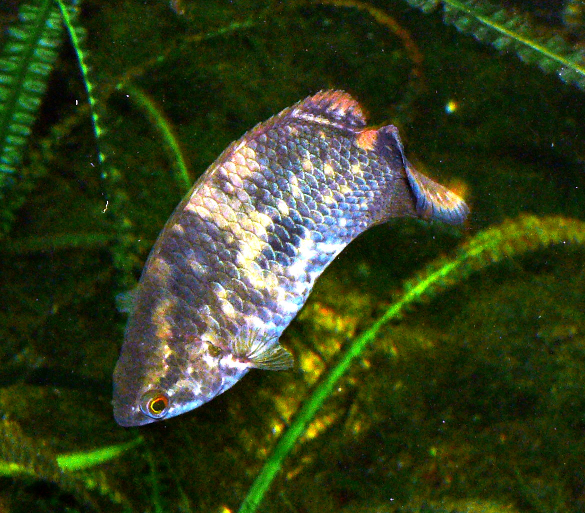 Ctenopoma acutirostre or Ctenopoma oxyrhynchum.